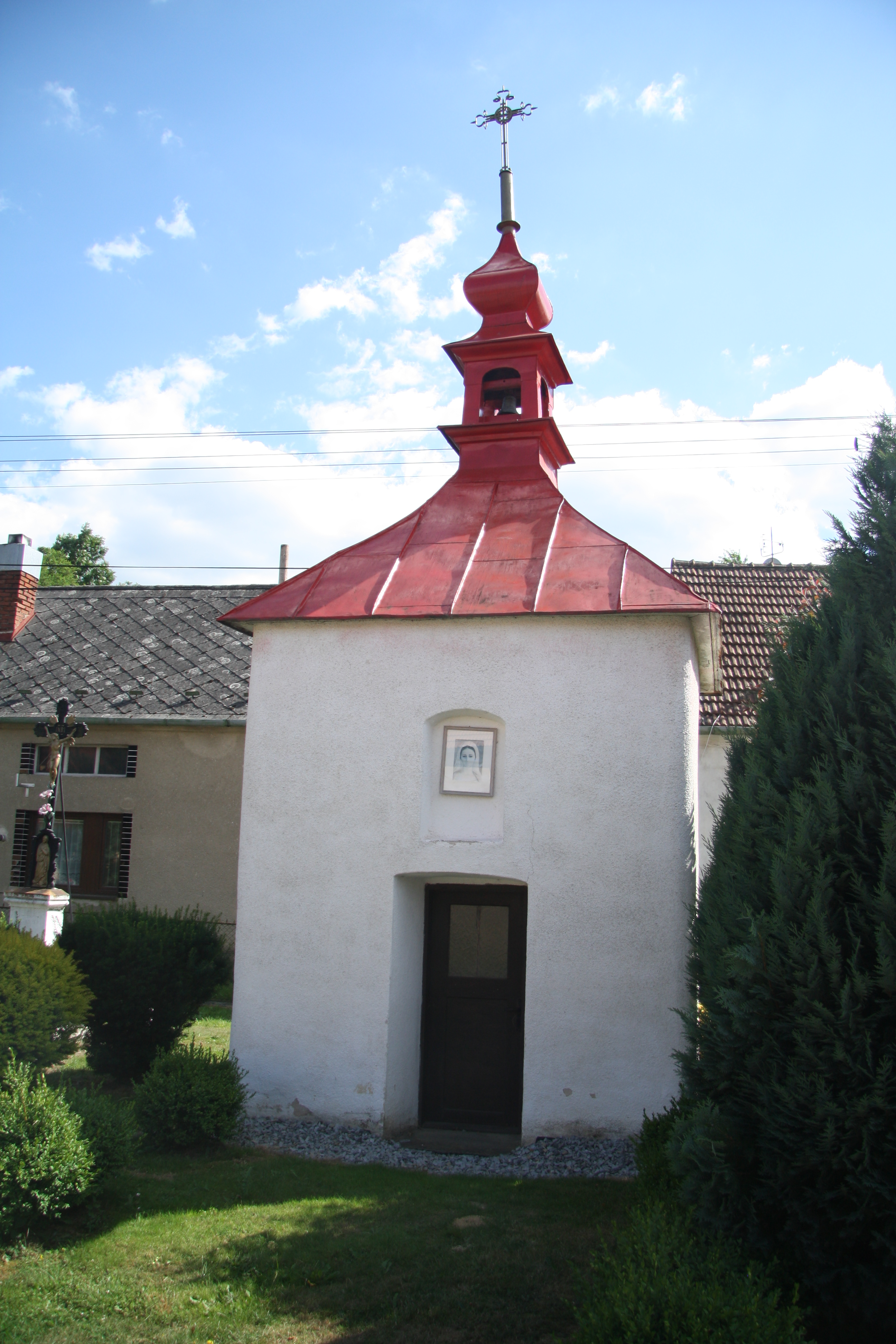 Chapel of Virgin Mary in Mastník, Třebíč District.